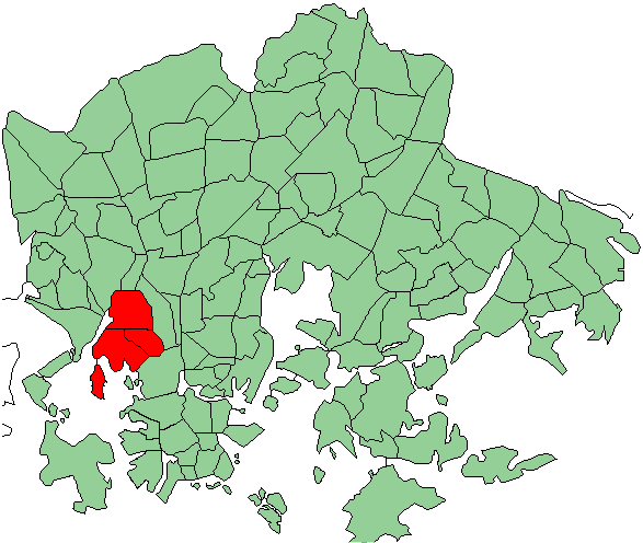 Districts of Helsinki, Reijola area highlighted (description in Finnish: Reijolan peruspiirin kartta)